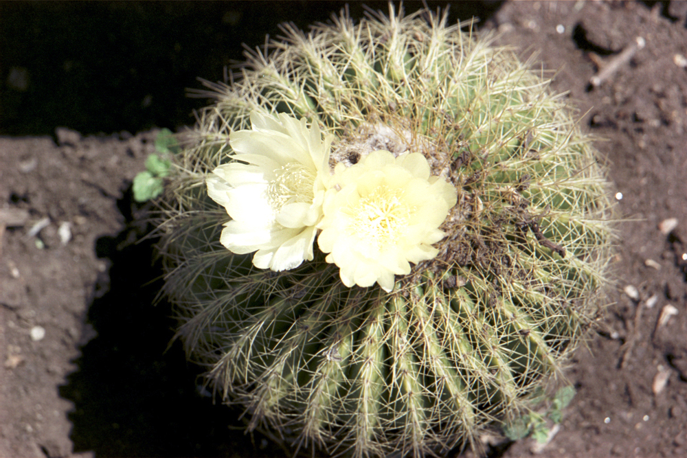 A cactus growing in California